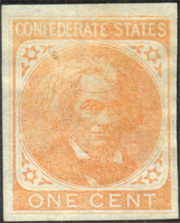 Confederated stamp of John C. Calhoun. The Confederate government honored Calhoun with this one-cent postage stamp, which was printed in 1862 but was never officially released.[1]